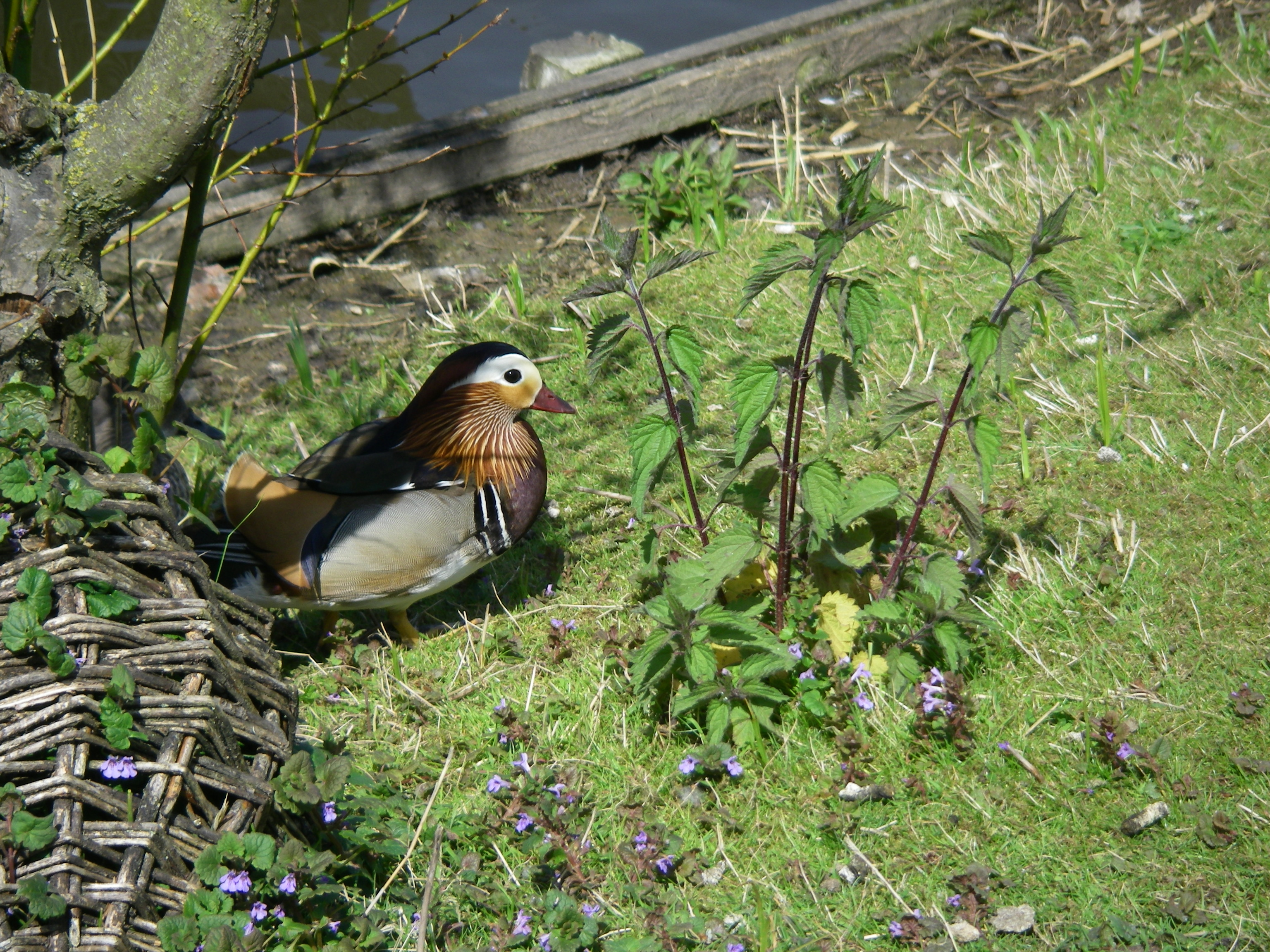 This is a mandarin duck. You can find them mostly in england.